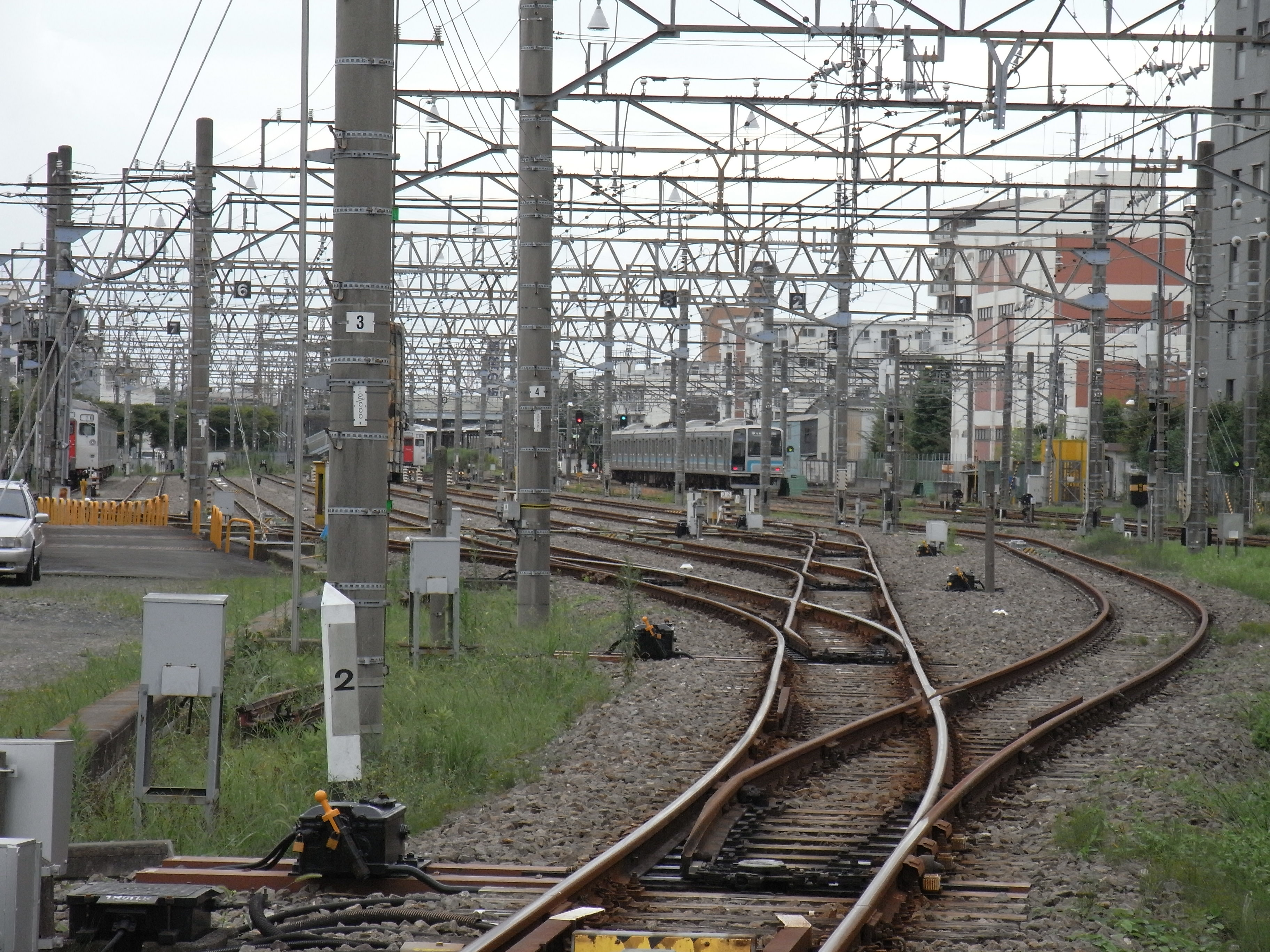 Atsugi was a terminal station of past Jinchu Railway. Current Sagami Railway still keeps Atsugi for train storage and connecting to JR Sagami line. The rightmost railway track connect to the JR Sagami line.